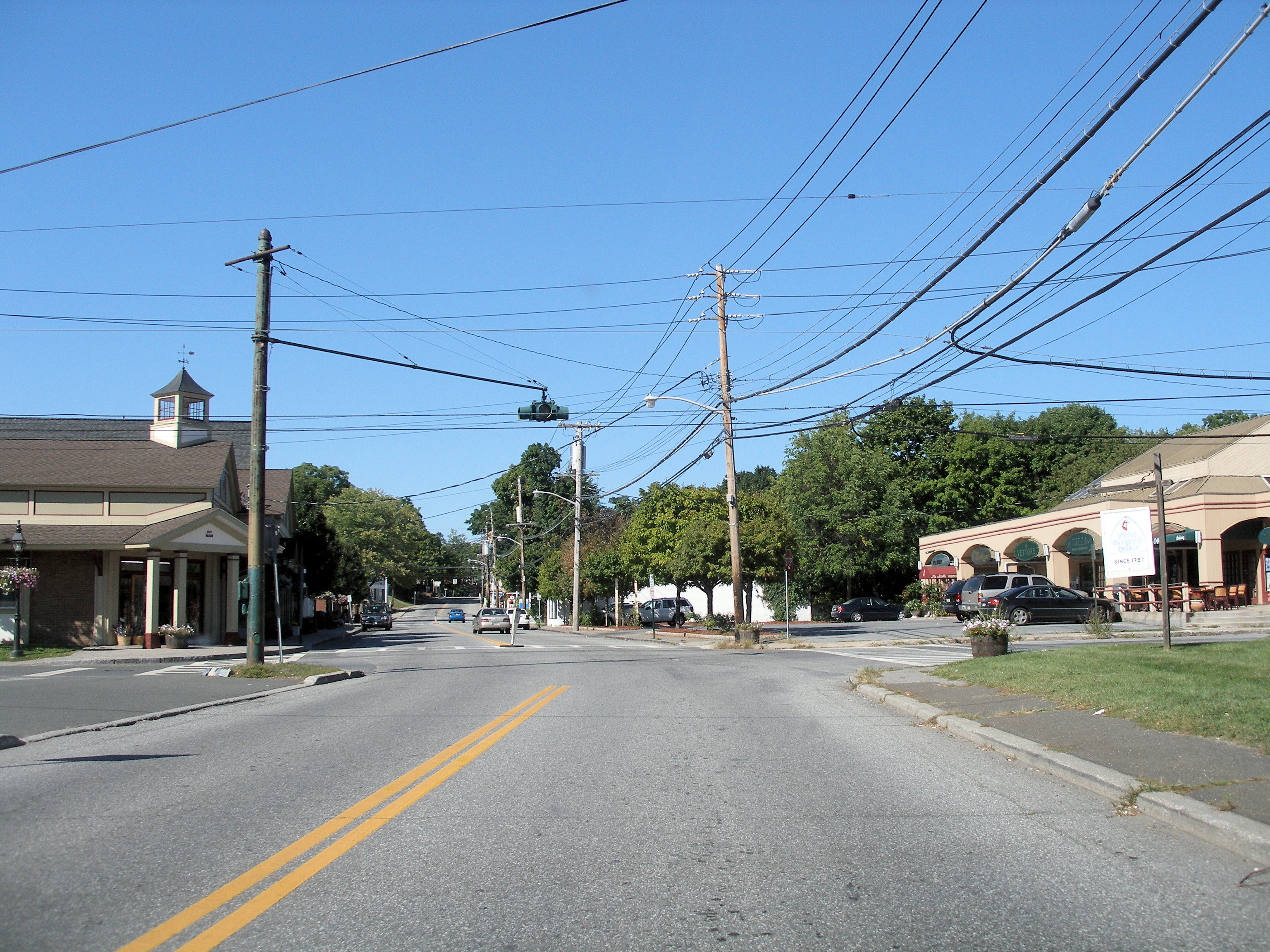 Downtown Armonk, New York. The perspective is northbound on Main Street at the intersection with Bedford Road. Photographed by user Coolcaesar.